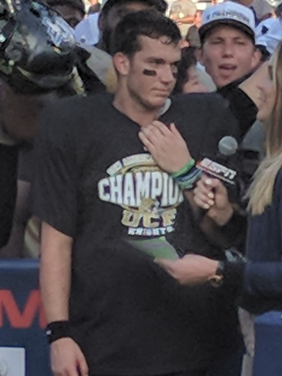 MVP McKenzine Milton being interviewed after having been named the MVP of the AAC Championship. UCF beat Memphis 62-55 in double overtime to claim the American Athletic Conference Championship and a 12-0 record for the season